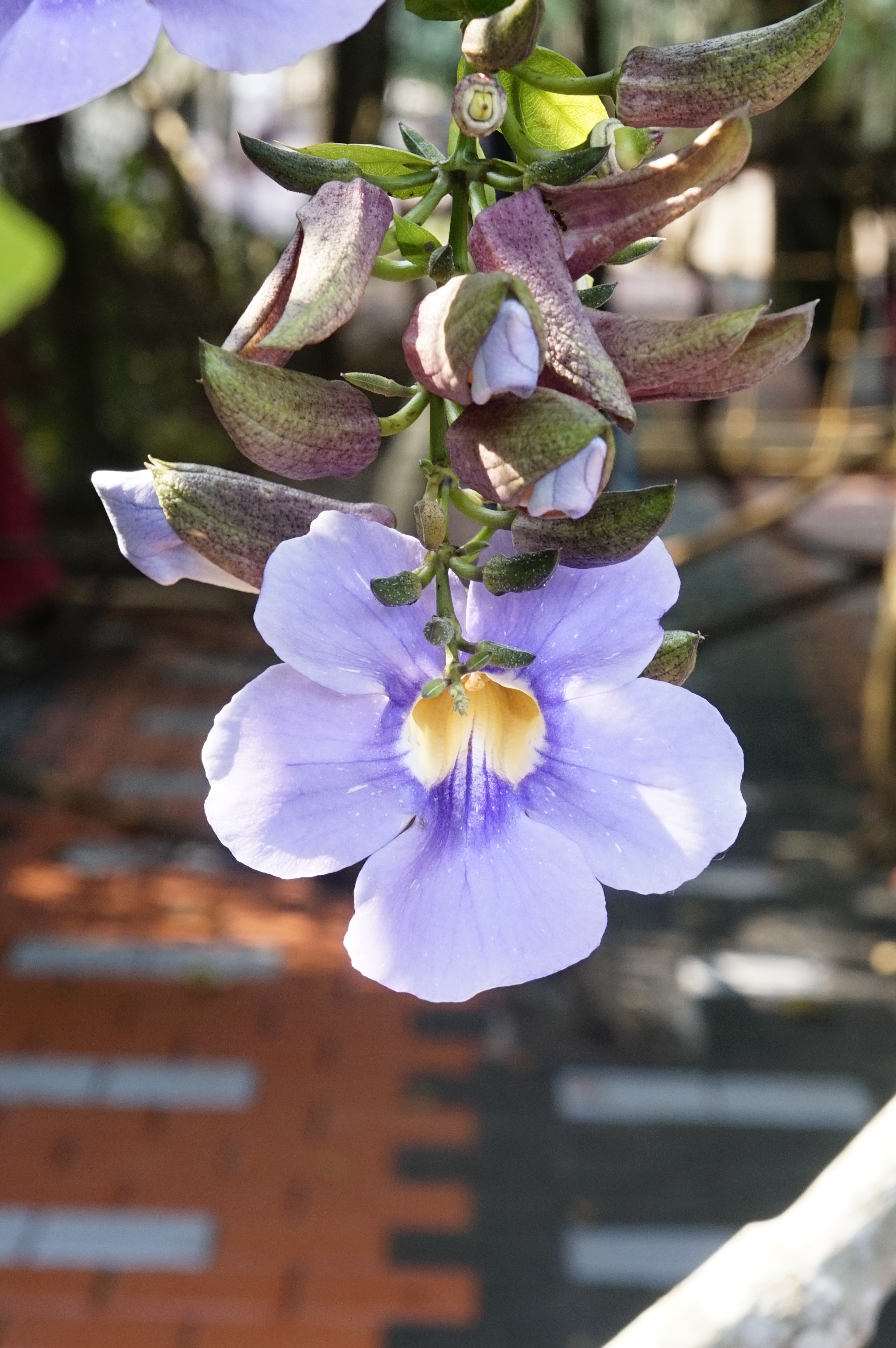 Thunbergia laurifolia @ Nilambur